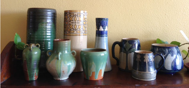 Various Newcomb College Pottery Pieces